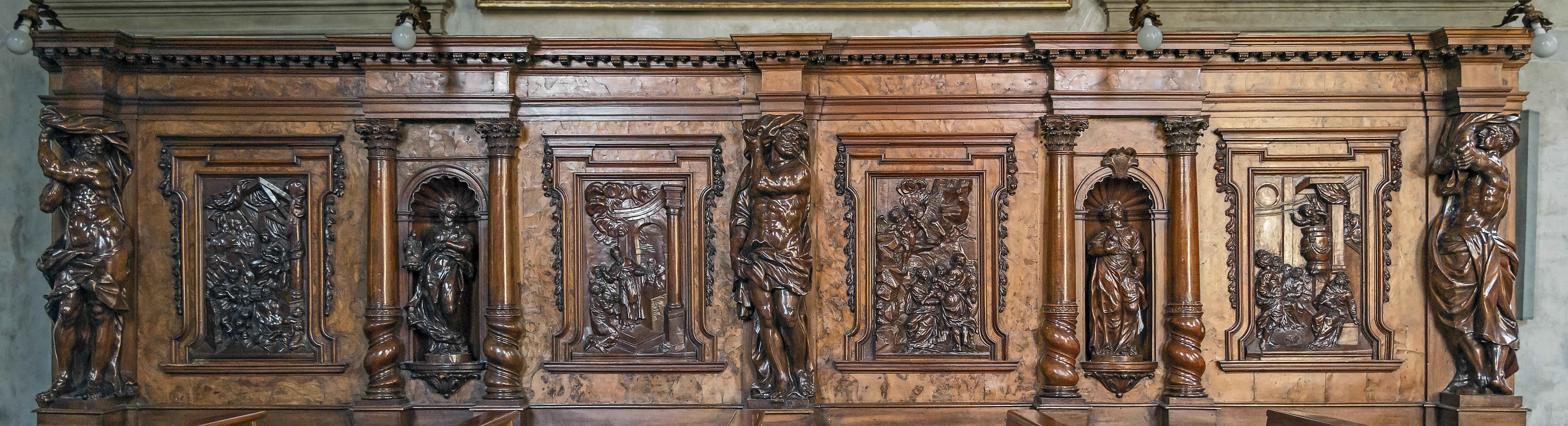 Santi Giovanni e Paolo in Venice. Chapel of our Lady of the Rosary - The two side walls are flanked by panels replacing the works of Brustolon, destroyed. They are siding with wooden altar depicting Atlantean and scenes from the life of Jesus and Mary by Giacomo Piazzetta (v.1687-1690). These panels come from the Scuola della Carità (today Accademia).